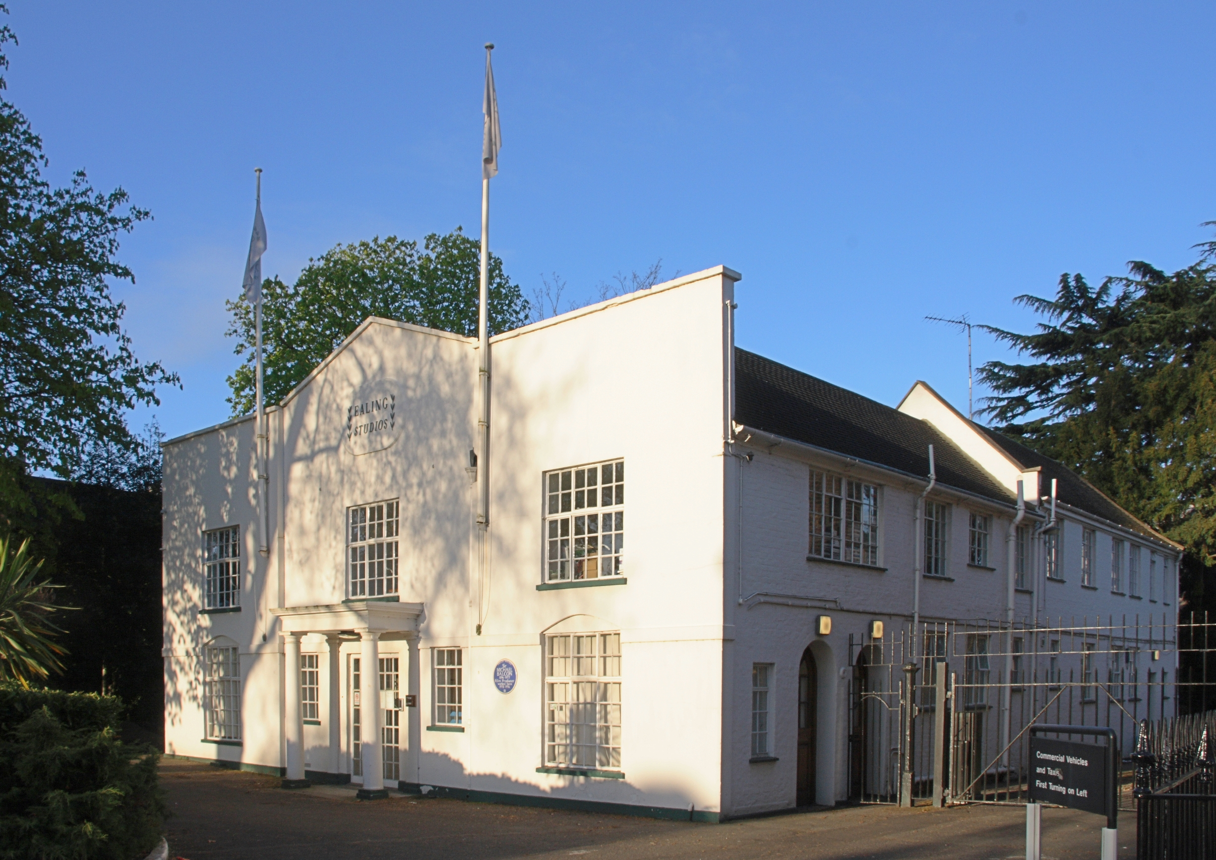 The White Lodge of Ealing Studios. Bought by film pioneer Will Barker in 1904 as a home, then known as just 'The Lodge'. Now used as administration building of Ealing Studios . The site itself became Britain's largest film studio with the first purpose built sound-stages. Produced the series of films known as the 'Ealing Comedies.' Once also owned By Rank Organization and for a time by the BBC. Oldest surviving film studio in Britain.